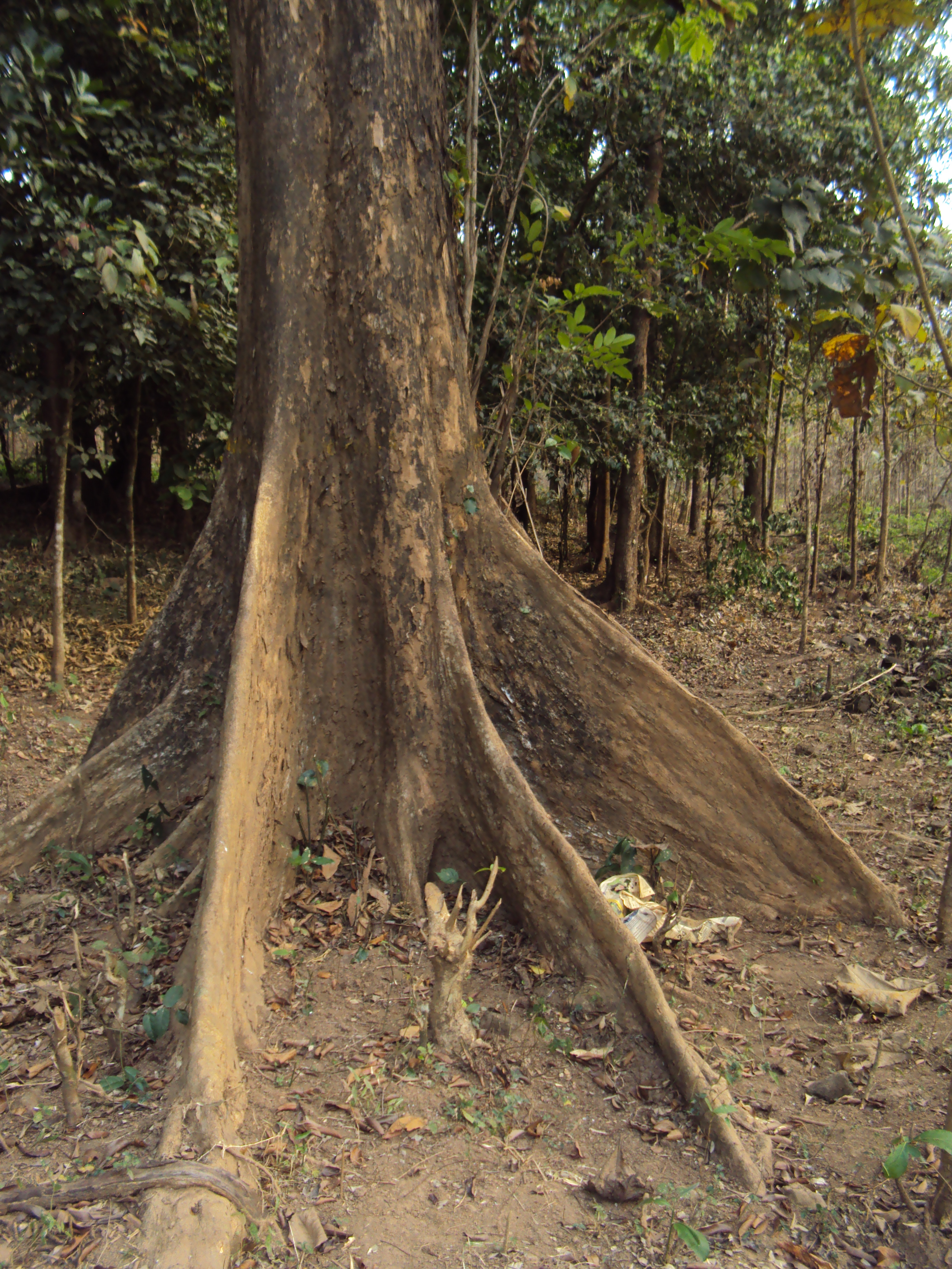 Andaman padauk